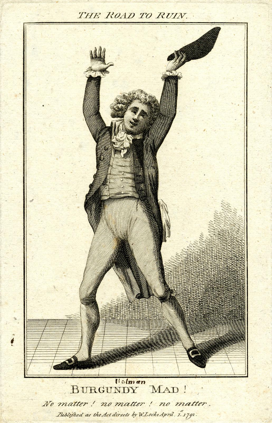 Holman stands full face, legs apart, arms held above his head, hat in his left hand. His expression and attitude suggest semi-intoxication. Beneath the title is engraved, 'No matter! no matter! no matter', and above the design 'The Road to Ruin'. 1 April 1792 Etching